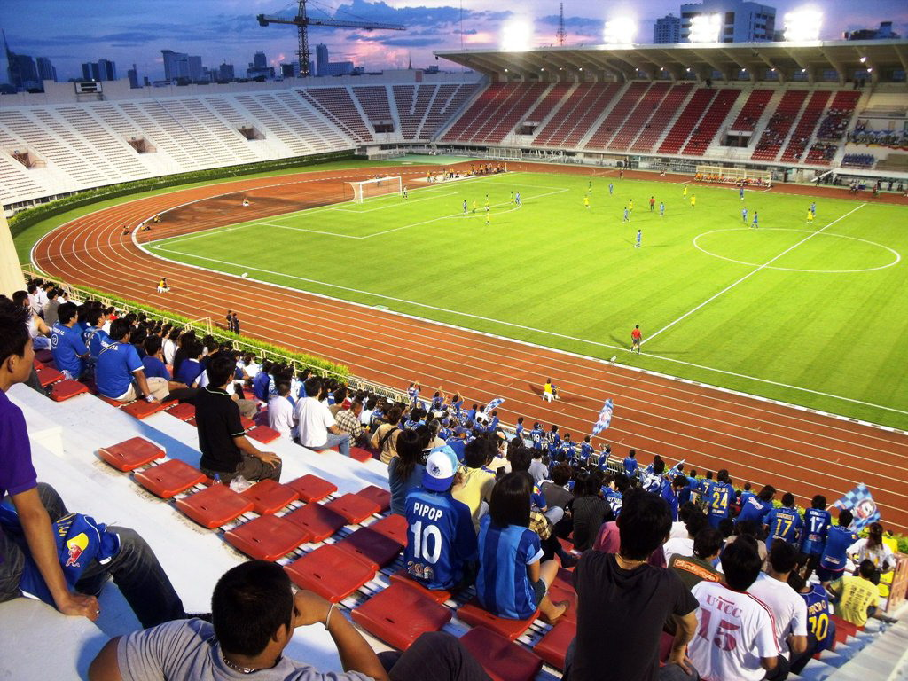 AFC Cup 2009 Chonburi FC